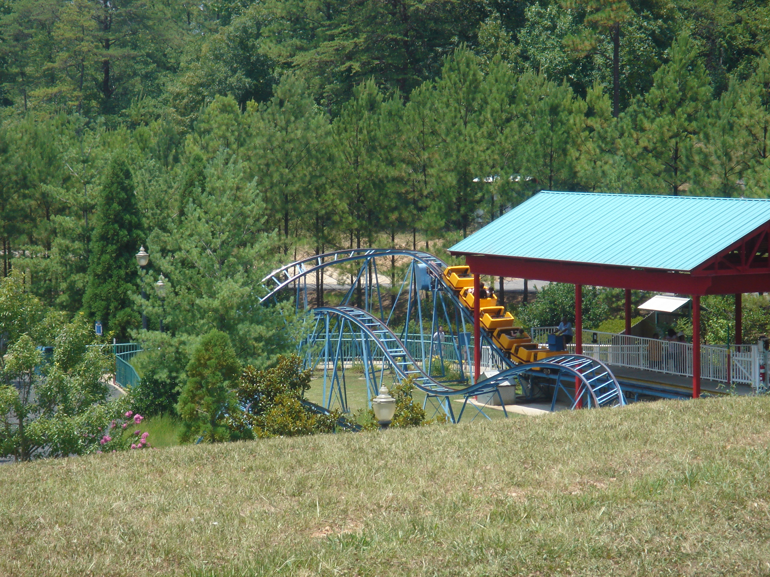 Great Chase at SFNE